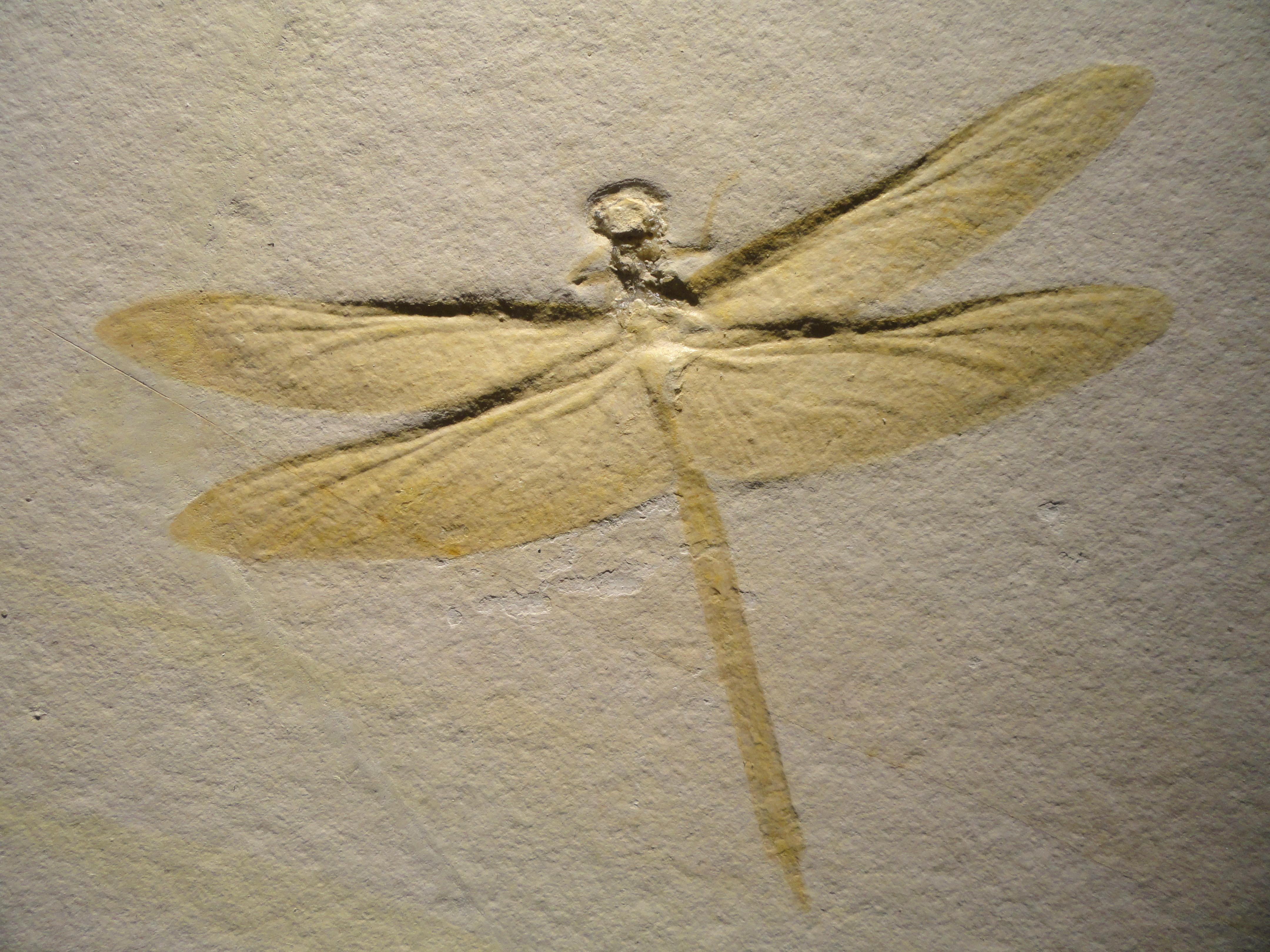 Exhibit in the Houston Museum of Natural Science, Houston, Texas, USA.